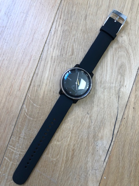 Move ECG Withings smartwatch